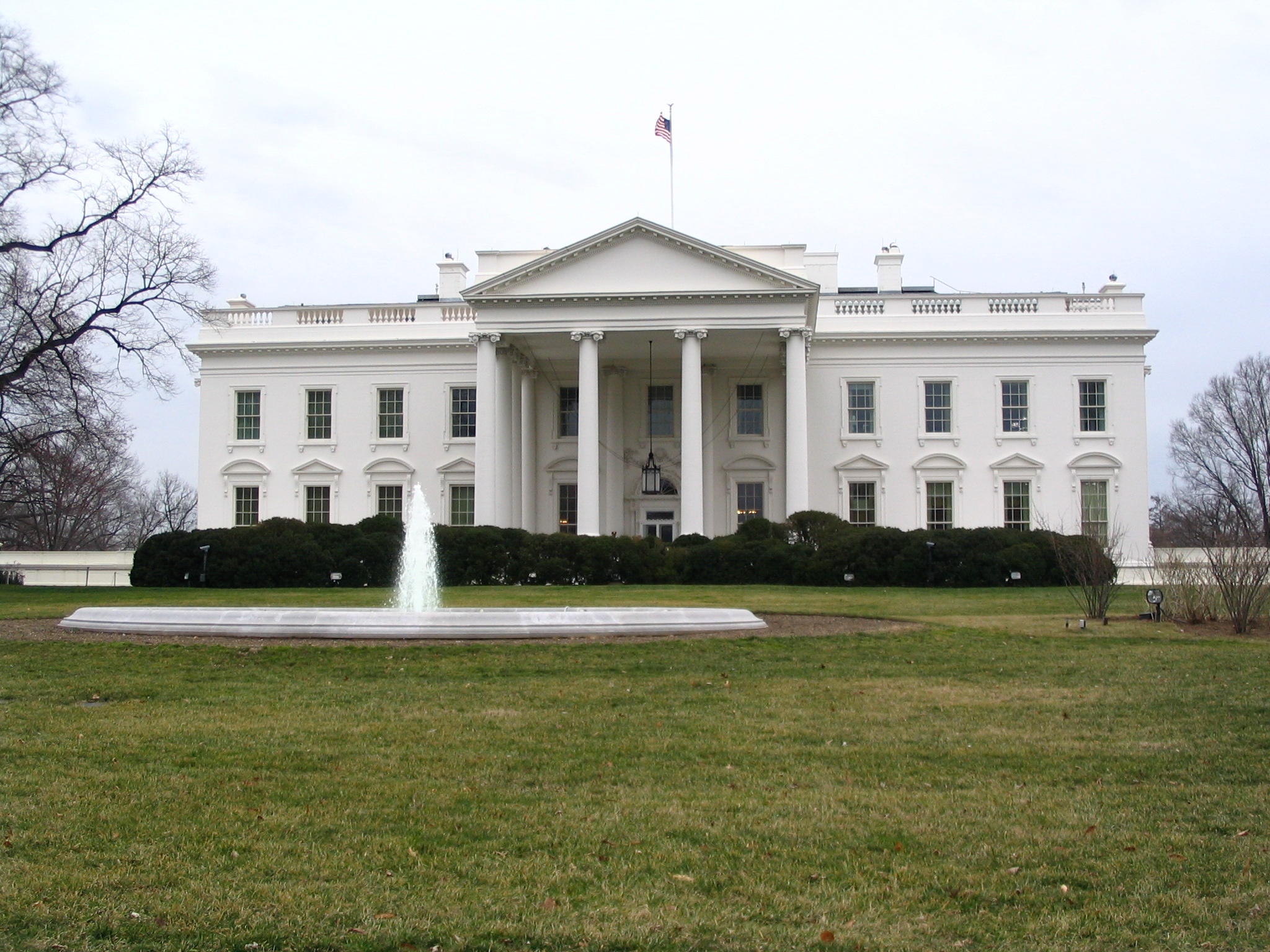 The White House (06.02.08)